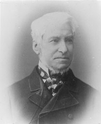 Portrait of Sir John Morphett, South Australian pioneer and politician.